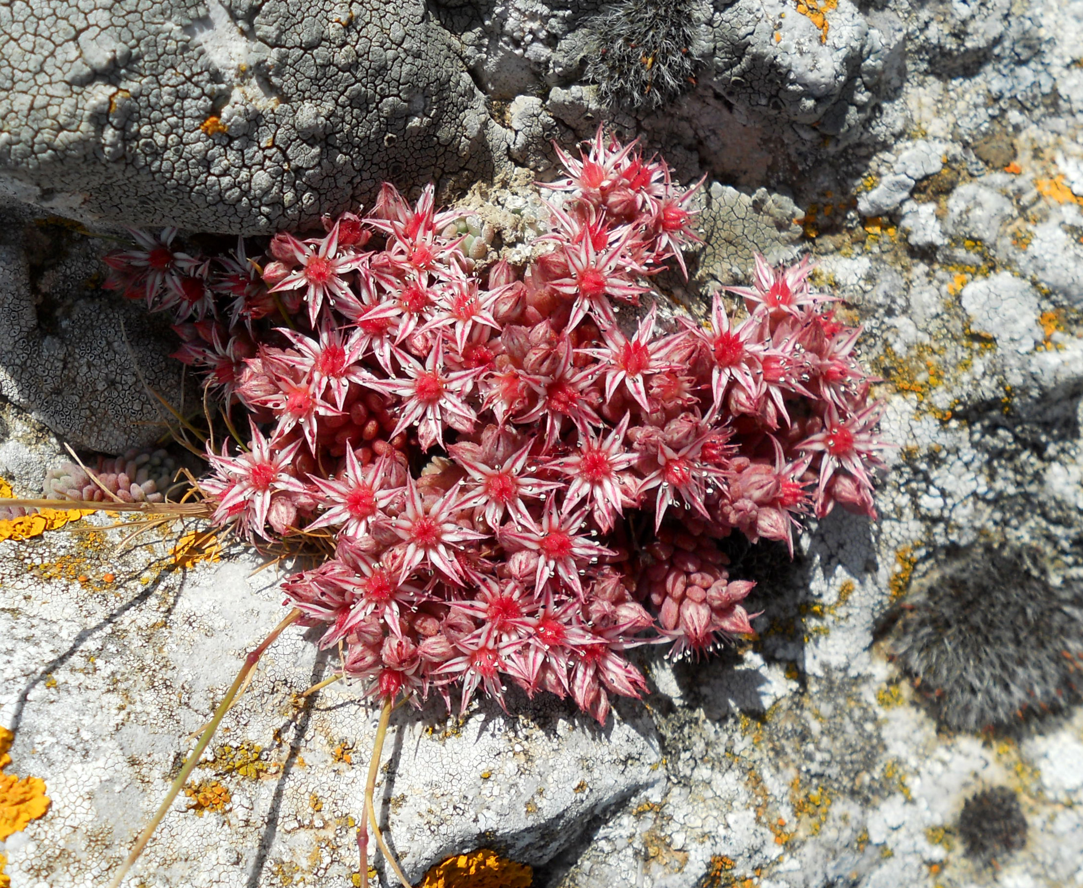 This is a photography of Natura 2000 protected area with ID GR4320005